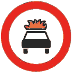 Diagram of road signs of Luxembourg